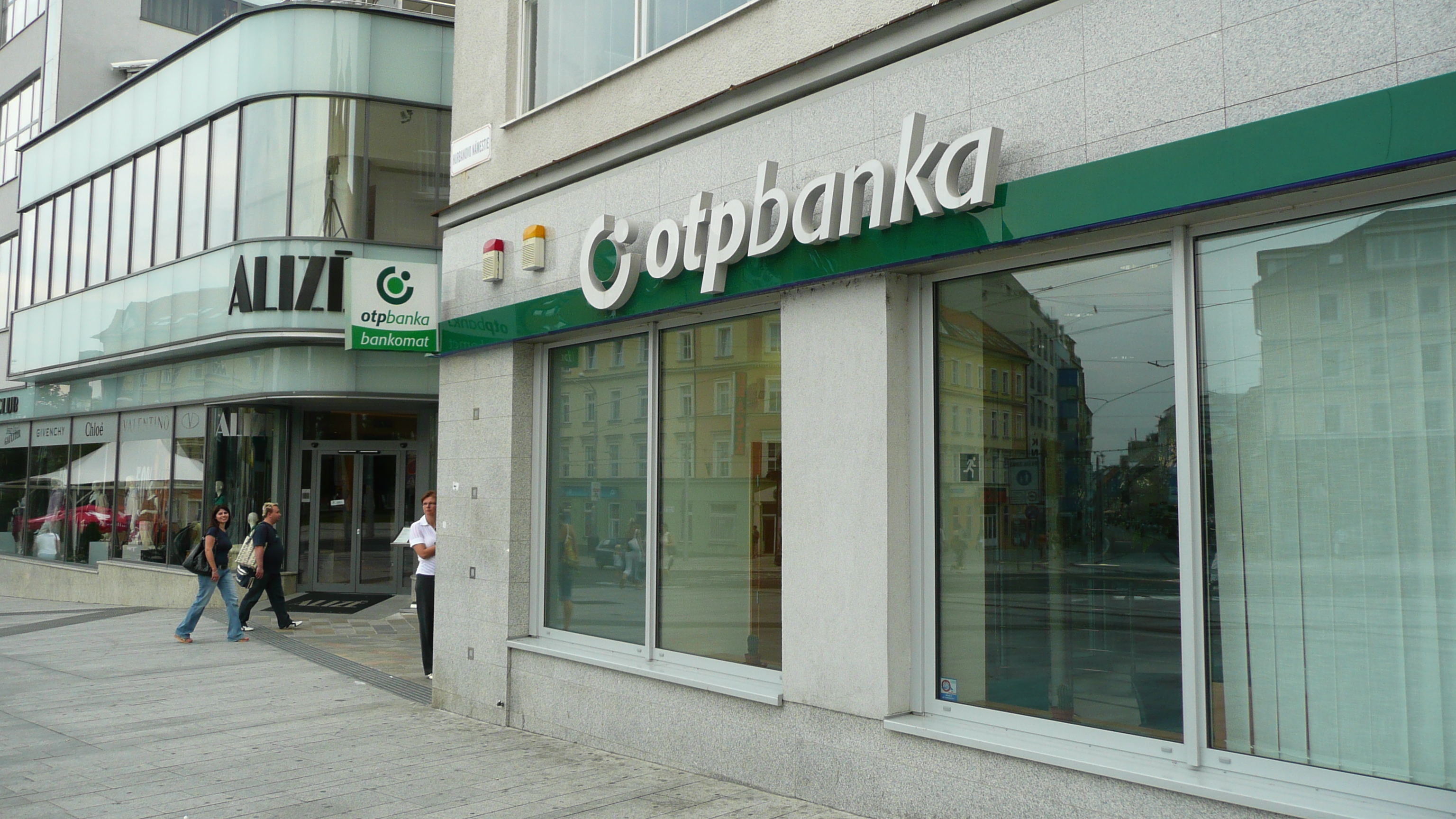 OTP Bank in Župní square in Bratislava, Slovakia